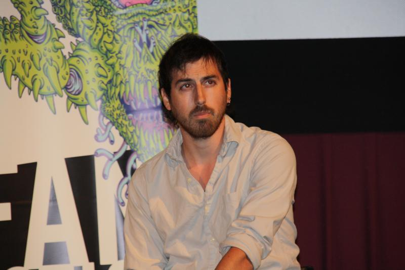 Film director Ti West